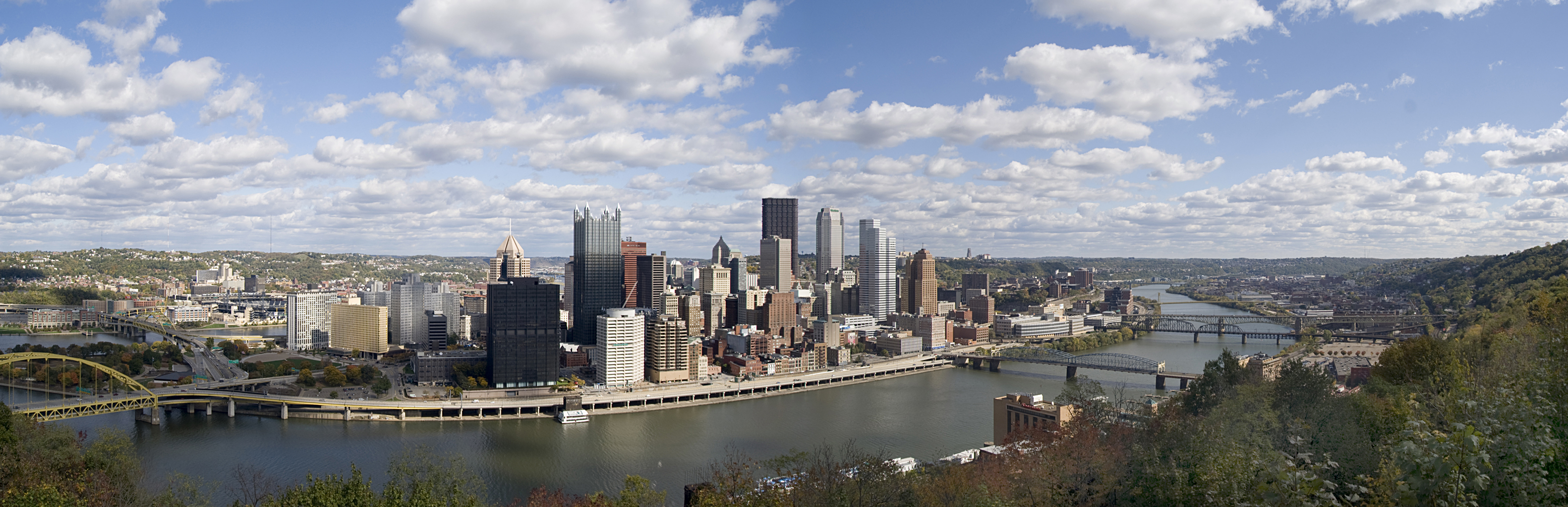 Pittsburgh skyline during the day, taken from Mt. Washington.